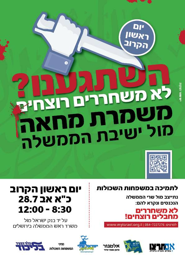 My Israel - a poster against releasing terrorists